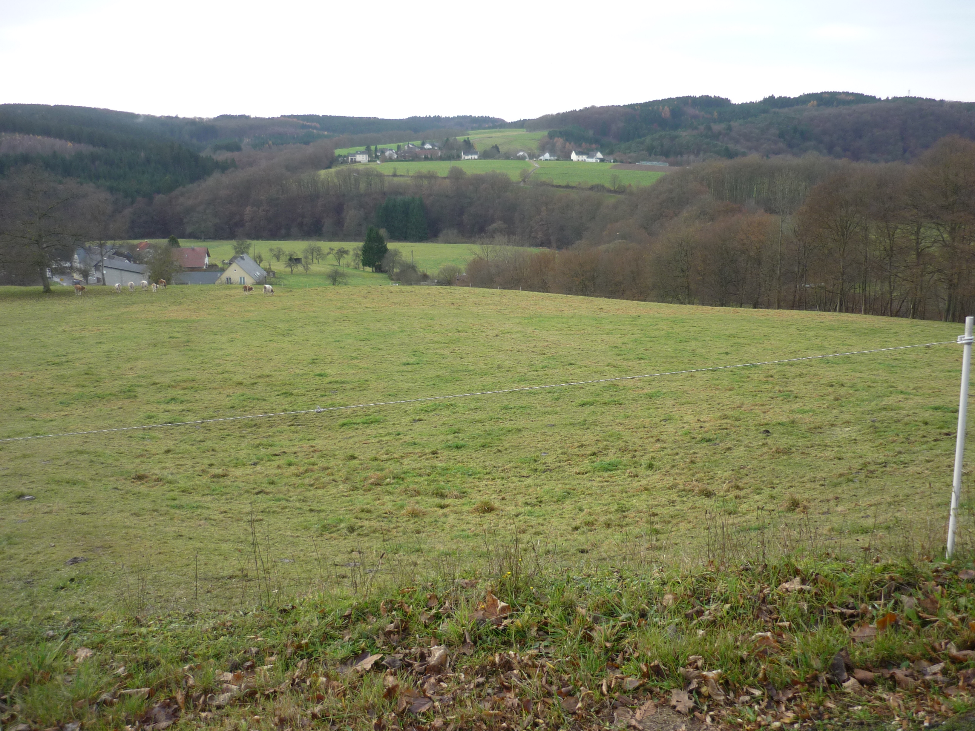 view of Stein-Wingert and Idelberg (Westerwald)